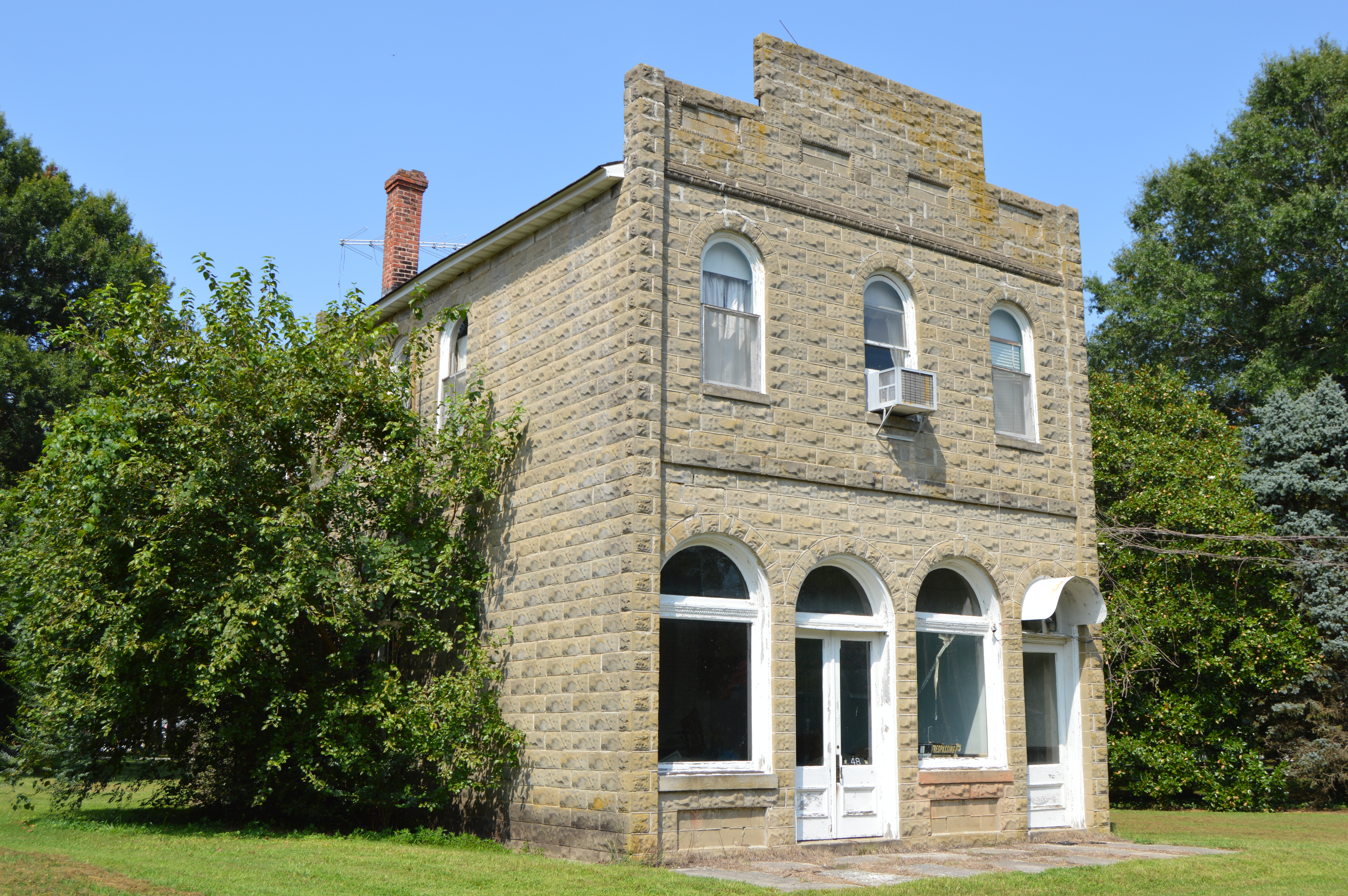 Front of the former Bank of Kinsale building, located at 48 Bank Street in Kinsale, Virginia, United States. Built in 1909, it is part of the Kinsale Historic District, a historic district that is listed on the National Register of Historic Places.